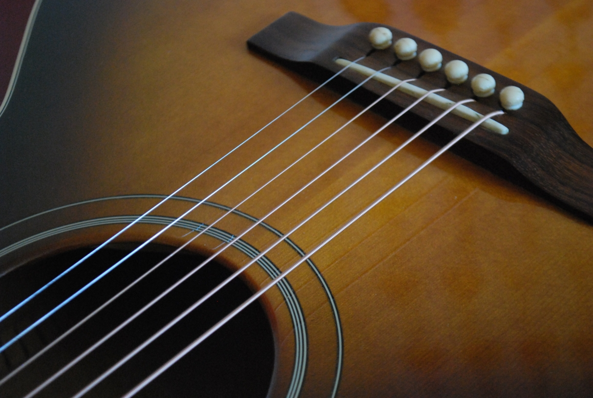 1996 Gibson Montana Blues King Electro VS 1996 Gibson Blues King Electro Vintage Sunburst, includes paperwork, humidifier and original hard shell "Gibson Montana" hard case.